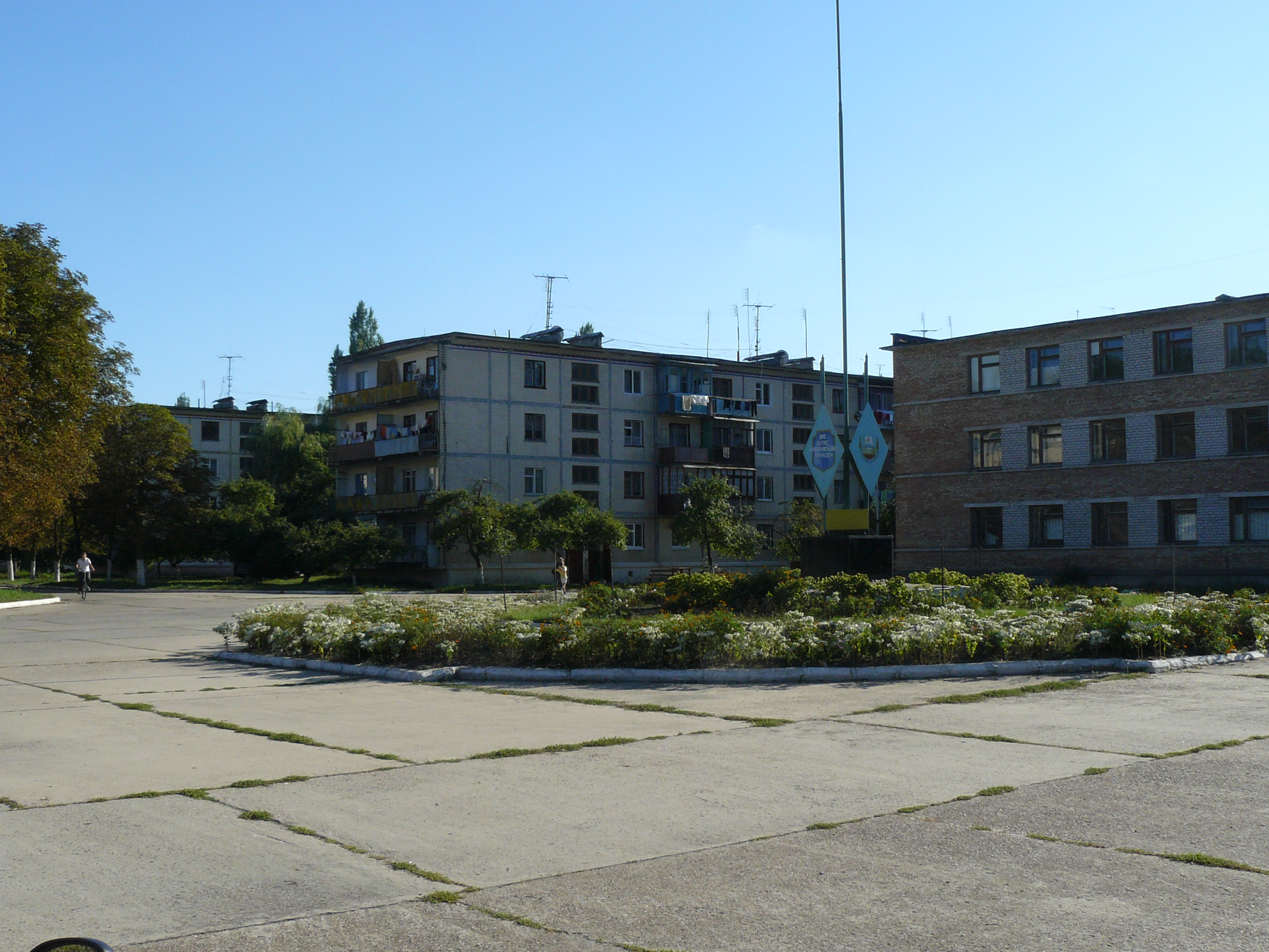 Horodok (Radomyshl district) - town center